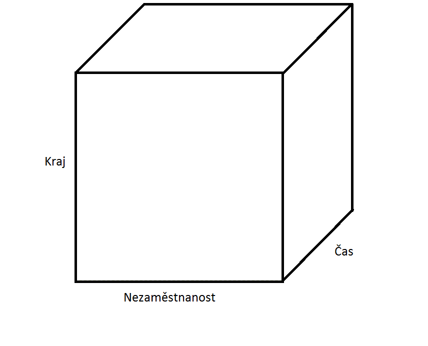 for article about olap cube